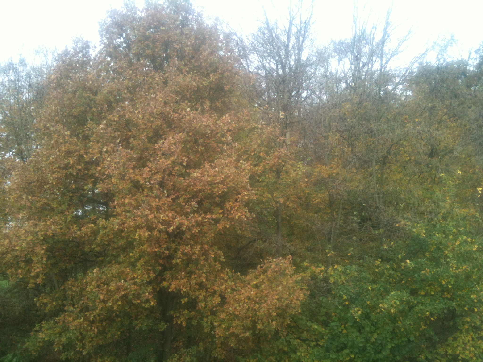 Photograph taken with an iPhone 3GS in automatic mode without setting up anything.